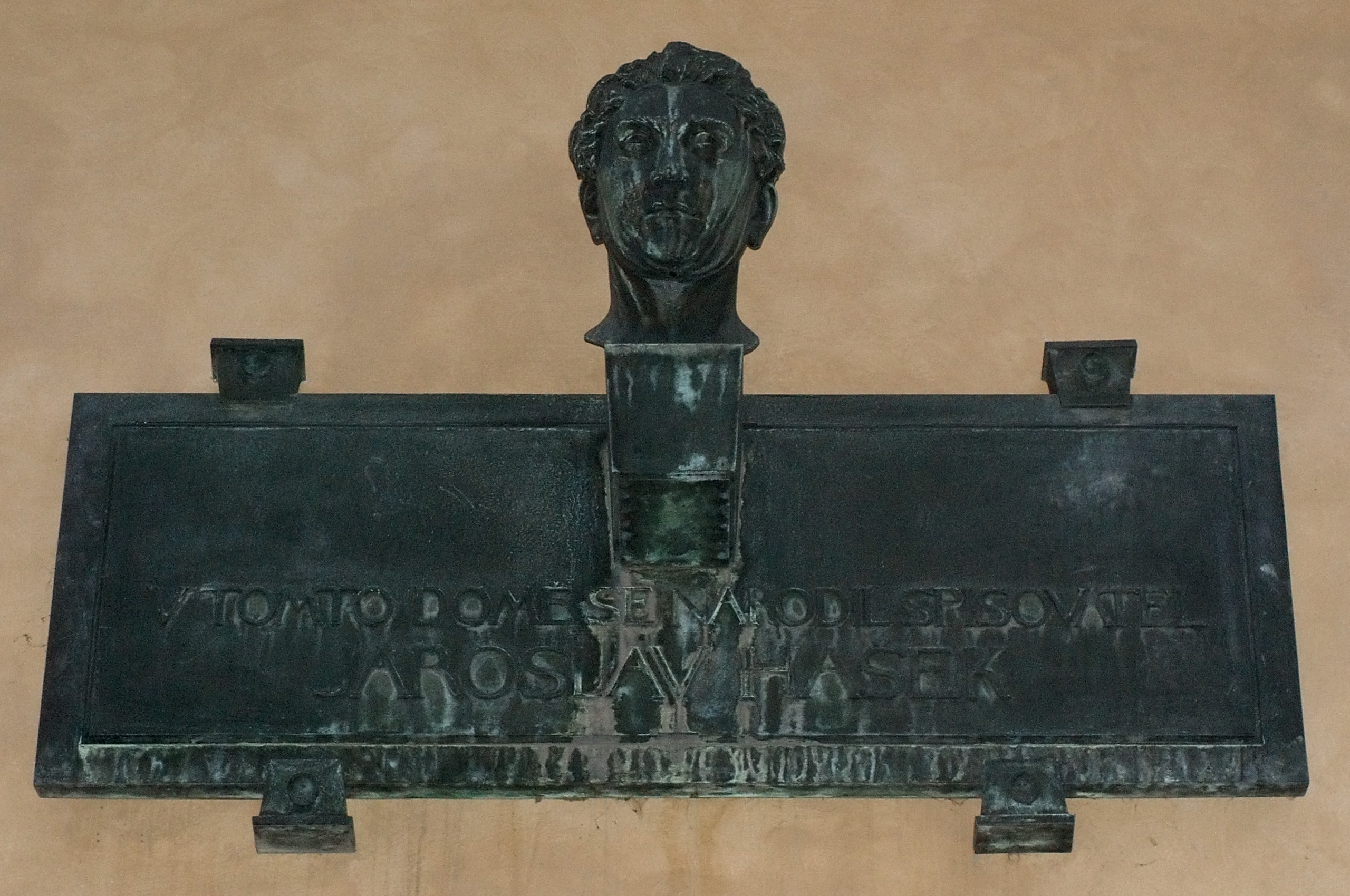 Memorial plaque of Czech writer Jaroslav Hašek on his birth house in Prague